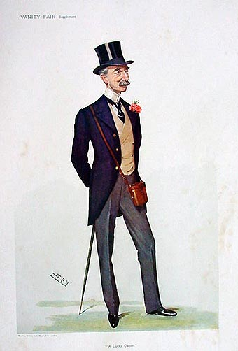 Caricature of Mr. W. Hall Walker MP (1856-1933). Caption read "A Lucky Owner".